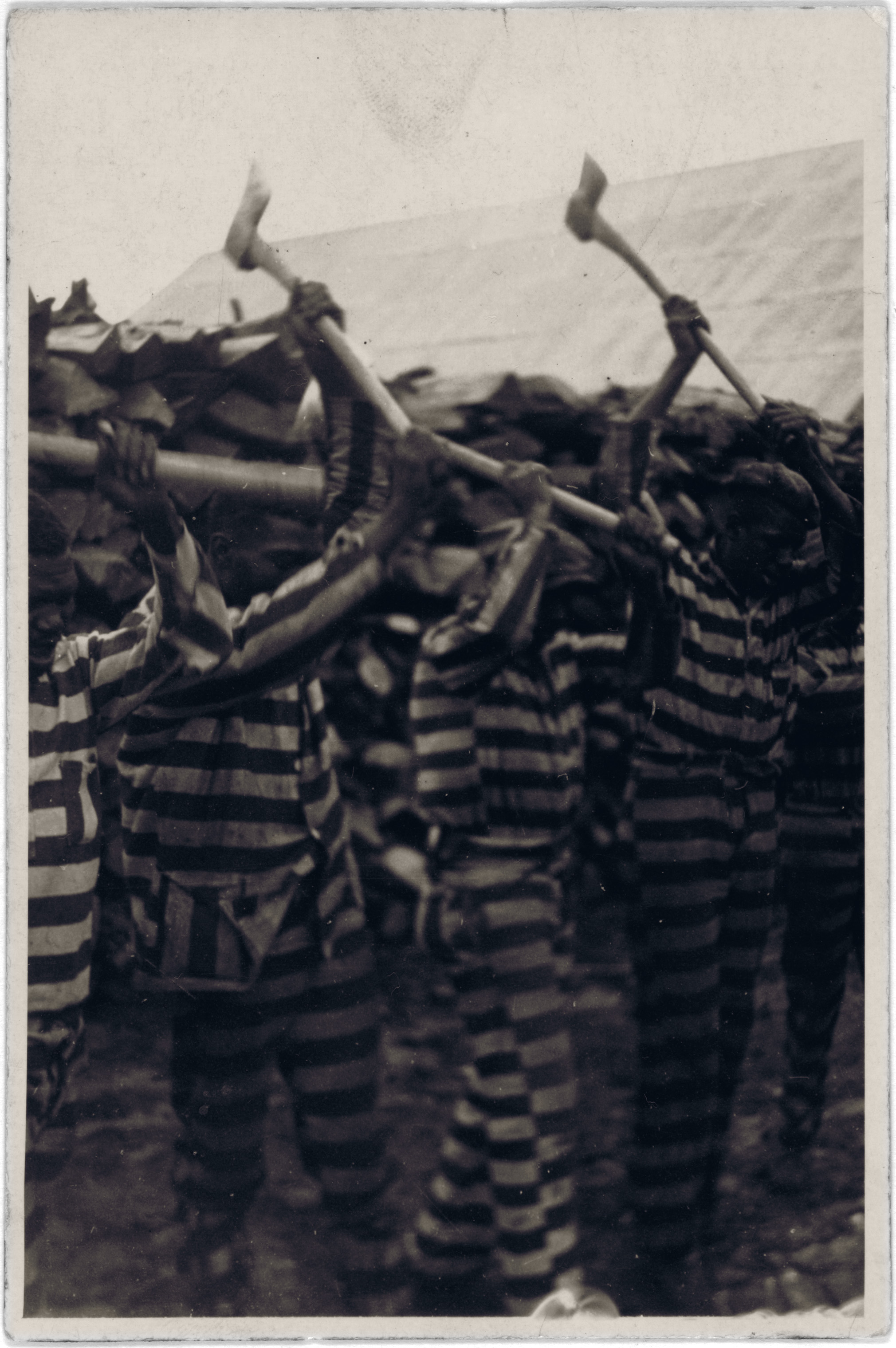 African American convicts working with axes and singing in woodyard, Reed Camp, South Carolina.